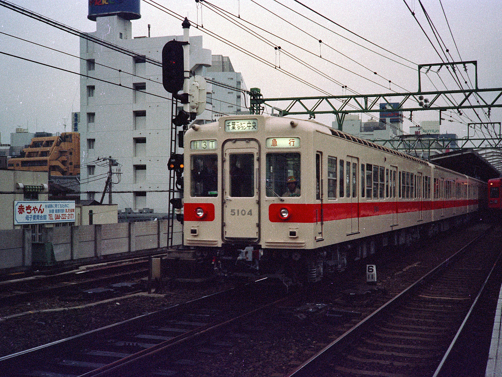 Bureau of Transportation Tokyo Metropolitan Government type 5000 going to siding at Keikyu Kawasaki station after its arrived at the station